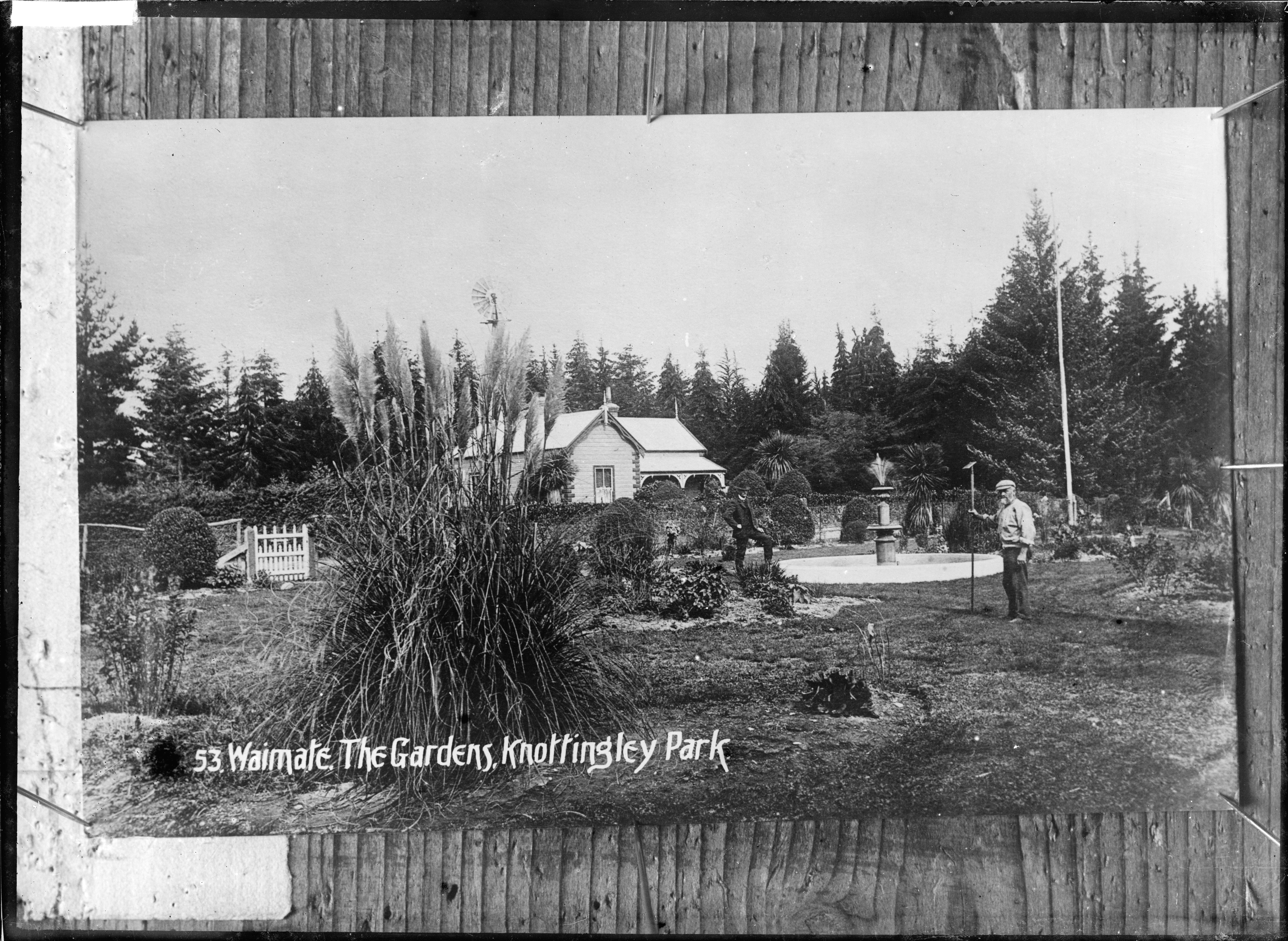 View of gardens at Knottingly Park, Waimate. A gardener holding a rake is standing in front of a fountain, centre right. There is a house behind a hedge in the centre, and a large pampas grass in the foreground. Photograph probably taken by Walter G Russell, bookseller in Queen Street, Waimate, between 1914 and 1918. Inscriptions: Inscribed - Photographer's title on negative -bottom left: 53. Waimate. The gardens. Knottingley ParkMarginal notes on negative -top left: W.G.R.. Quantity: 1 b&w copy negative(s). Physical Description: Dry plate glass negative Russell, Walter Gurney, fl 1914-1918. Gardens at Knottingly Park, Waimate - Photograph taken by W.G.R.. Price, William Archer, 1866-1948 :Collection of post card negatives. Ref: 1/2-001030-G. Alexander Turnbull Library, Wellington, New Zealand.